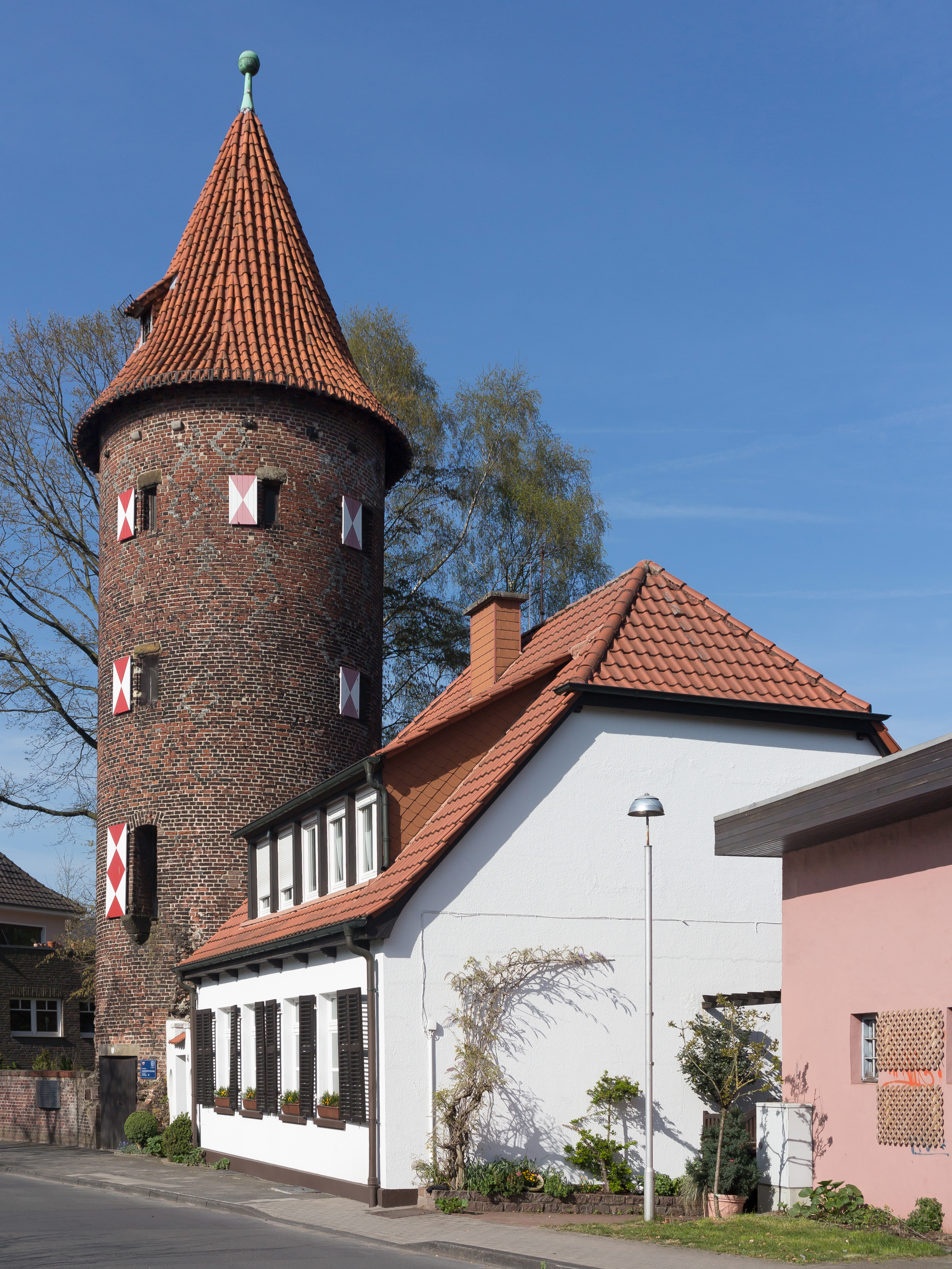 Borken, tower: der KuhmturmThis is a photograph of an architectural monument., no. A2